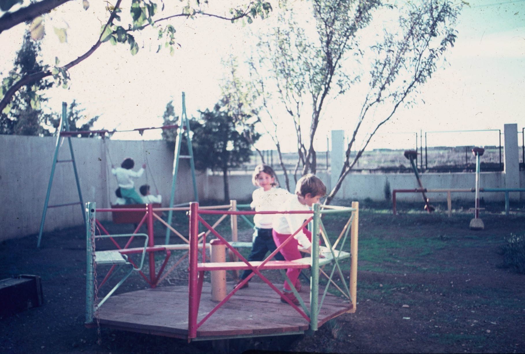 Education in the Golan Heights